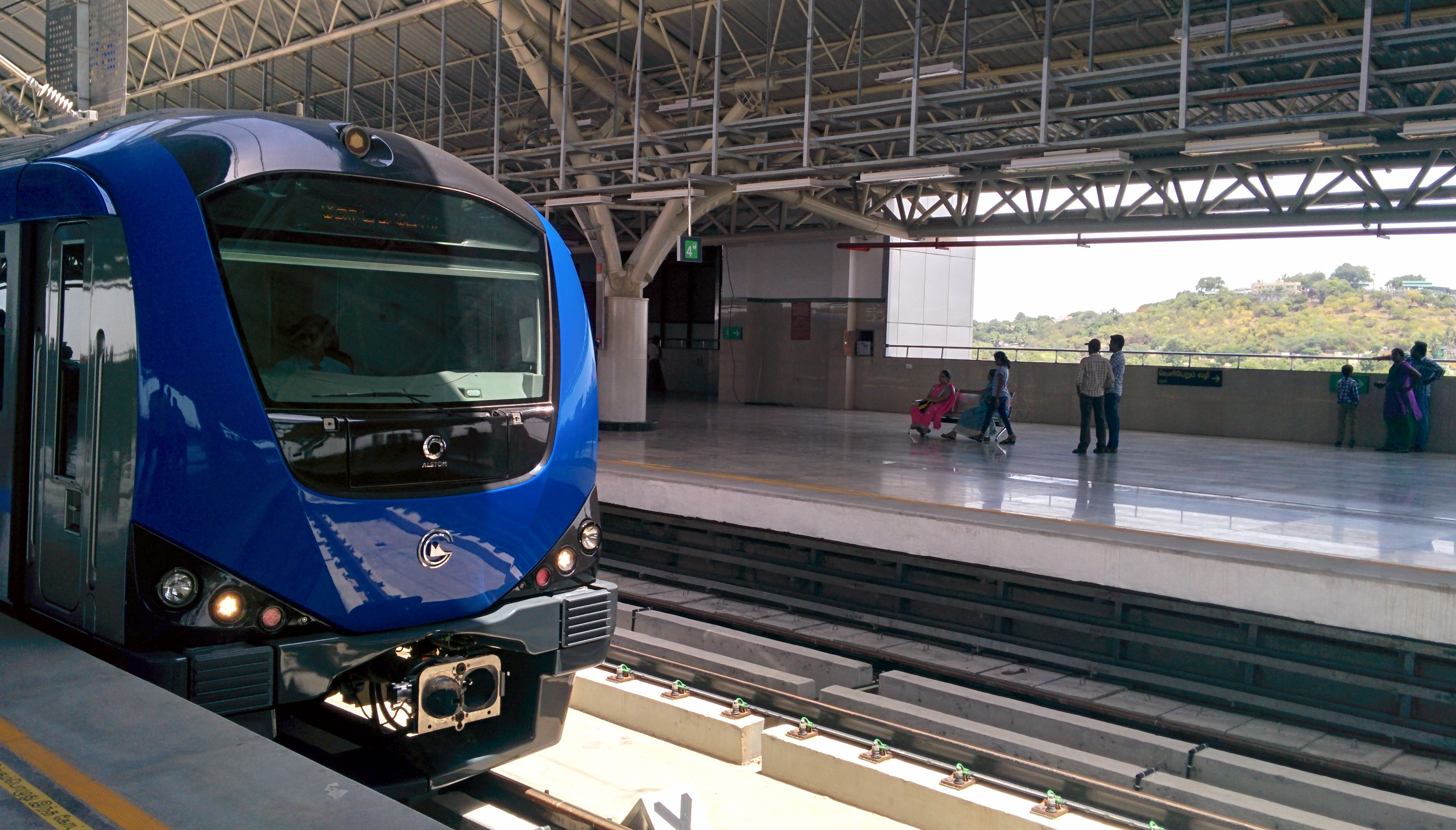 Metro rolling in